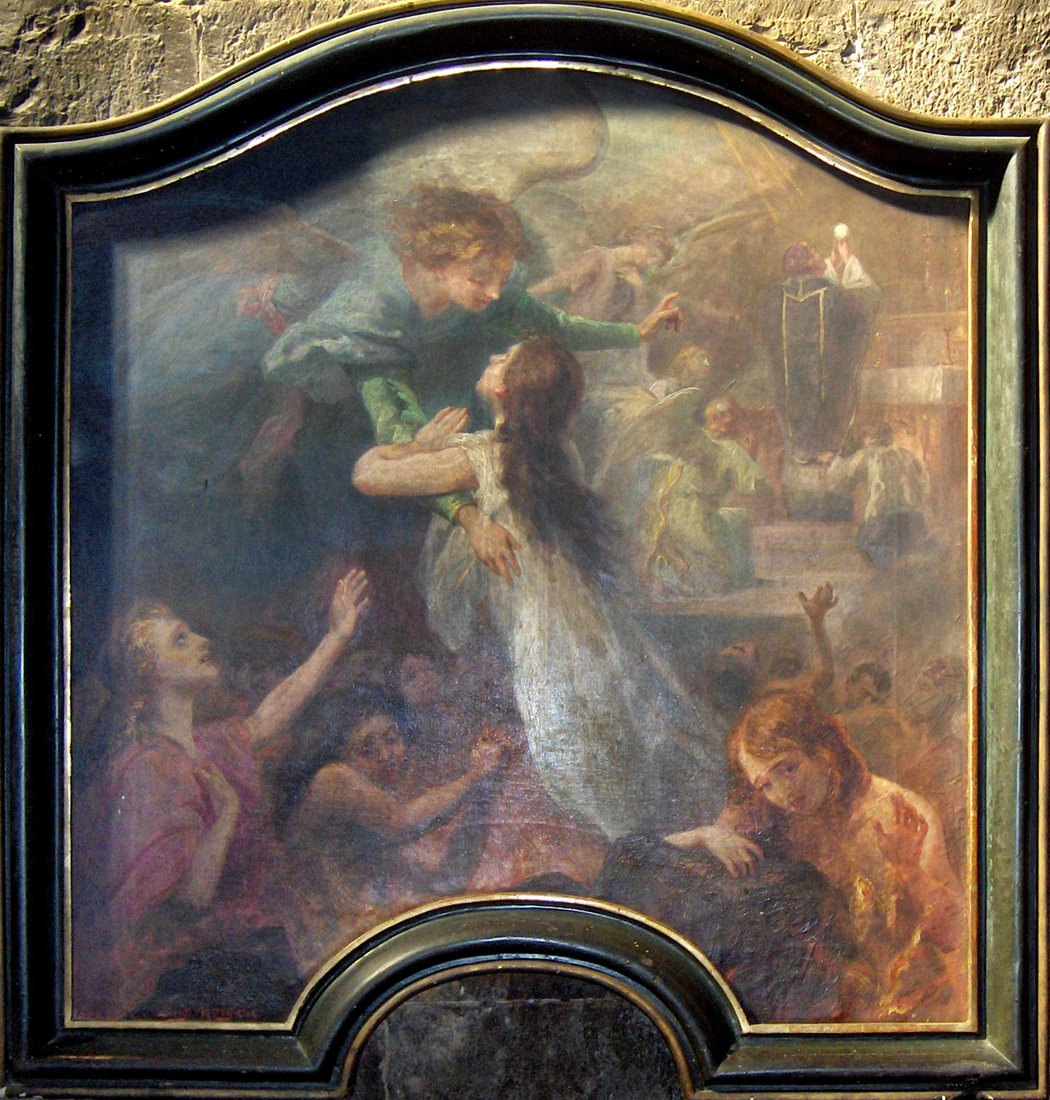 "The souls of the Purgatory", painting (1923) by Luigi Morgari (1859-1935); basilica and cathedral San Siro, Sanremo, Italy